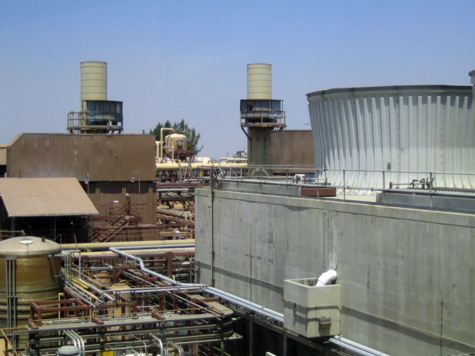 Part of the Puente Hills Gas-To-Energy Facility, using methane gas from the Puente Hills Landfill. Located in the Puente Hills, eastern Los Angeles County.